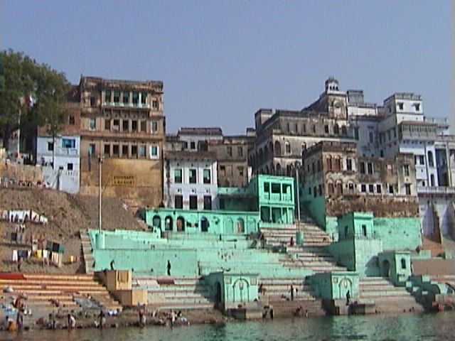 See Varanasi Development Cooperation Handbook/Stories/Responsible Development - Varanasi The Varanasi Heritage Dossier Kautilya Society Play media Vrinda Dar - How we got involved in heritage protection of Varanasi